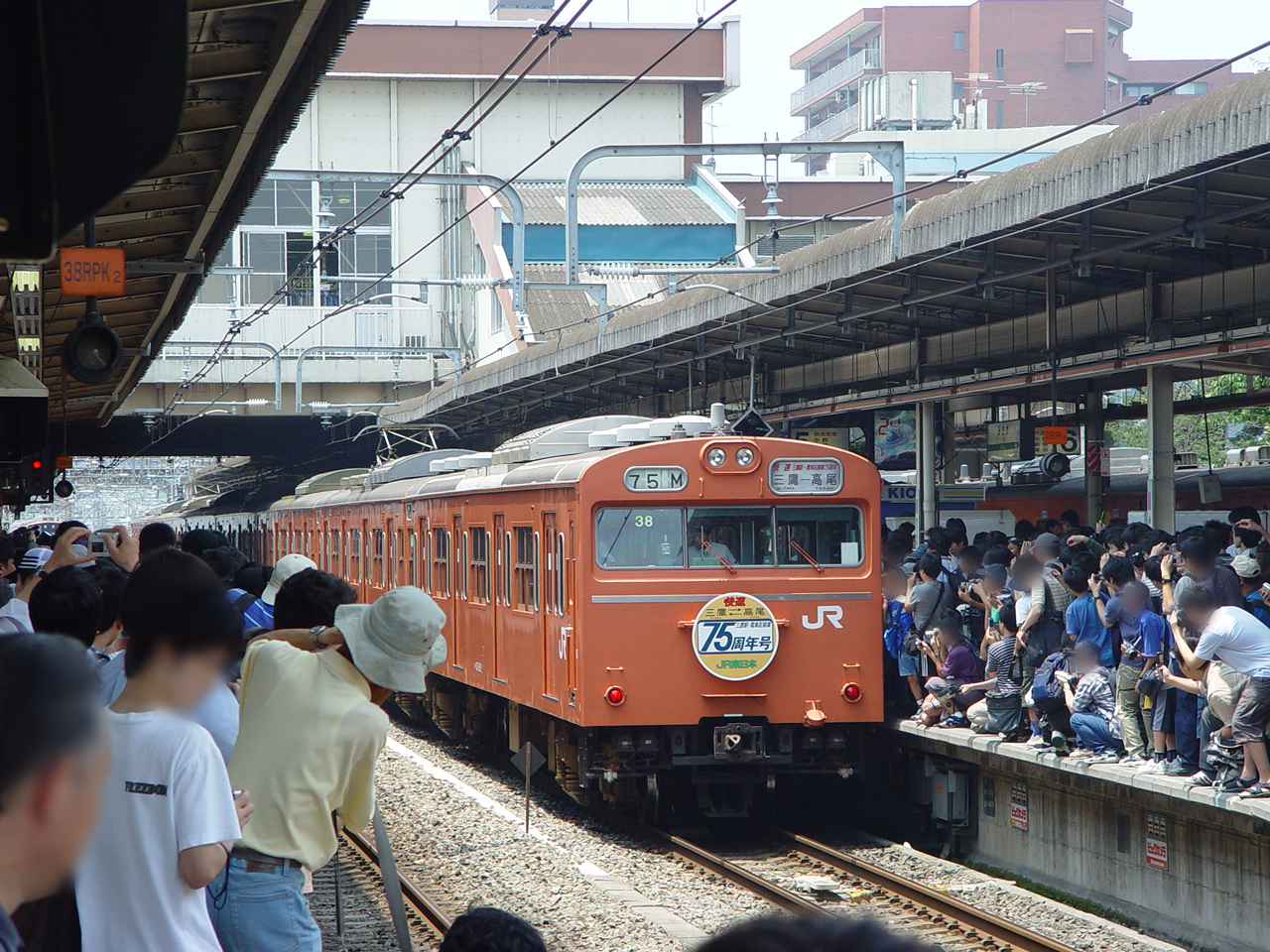 JR East Musashino Line 103 series EMU set 38 at Mitaka Station on a special train service to Takao to mark the 75th anniversary of electrification in the Mitaka area